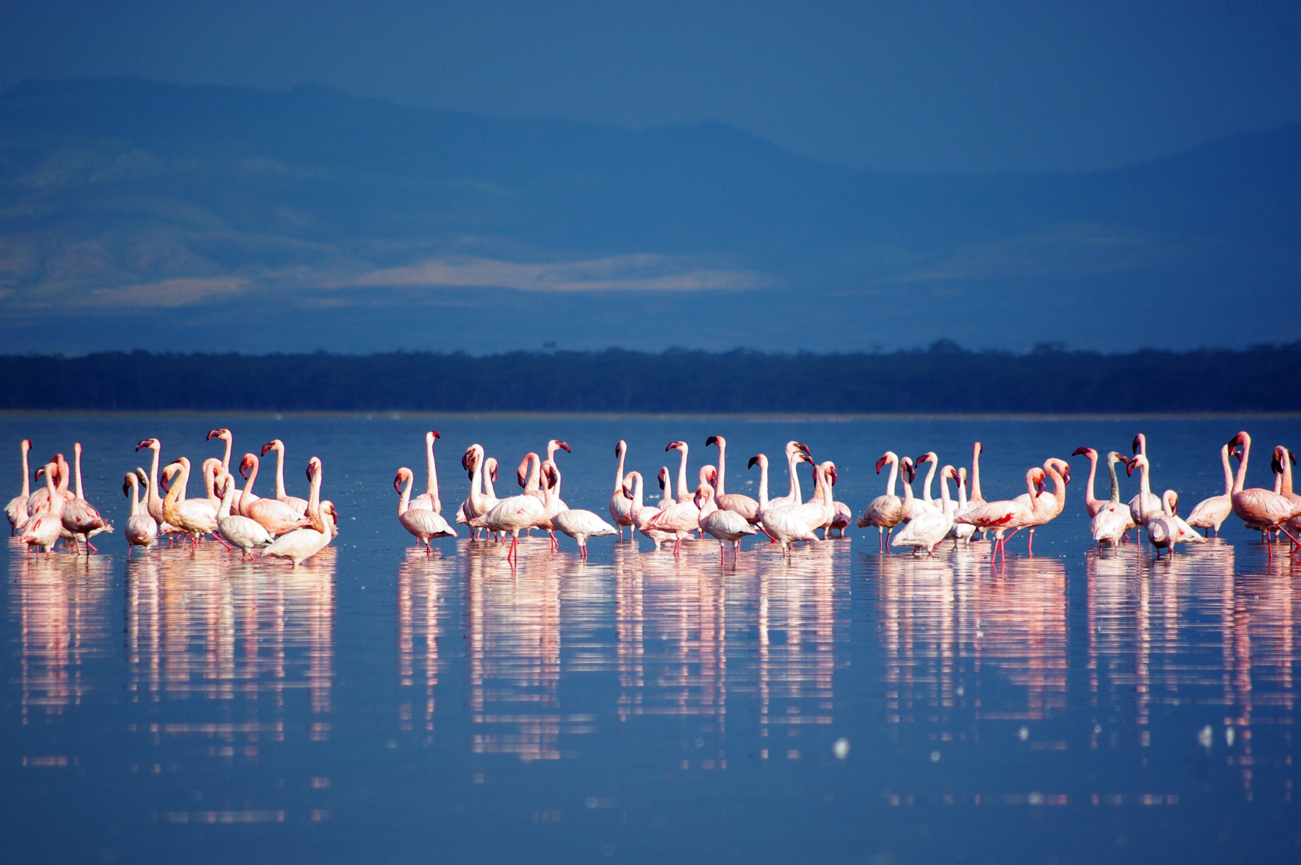 Flamingos in Lake Nakuru